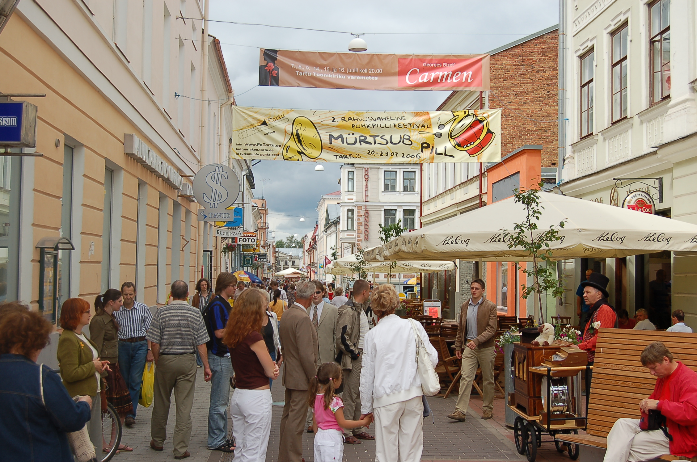 Rüütli street in Tartu, Estonia